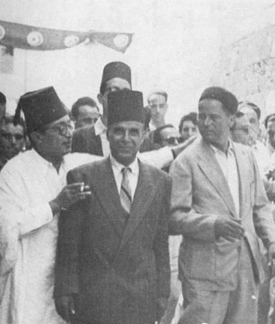 Bourguiba is welcomed back by Ben Youssef and Hached, after his return from Egypt